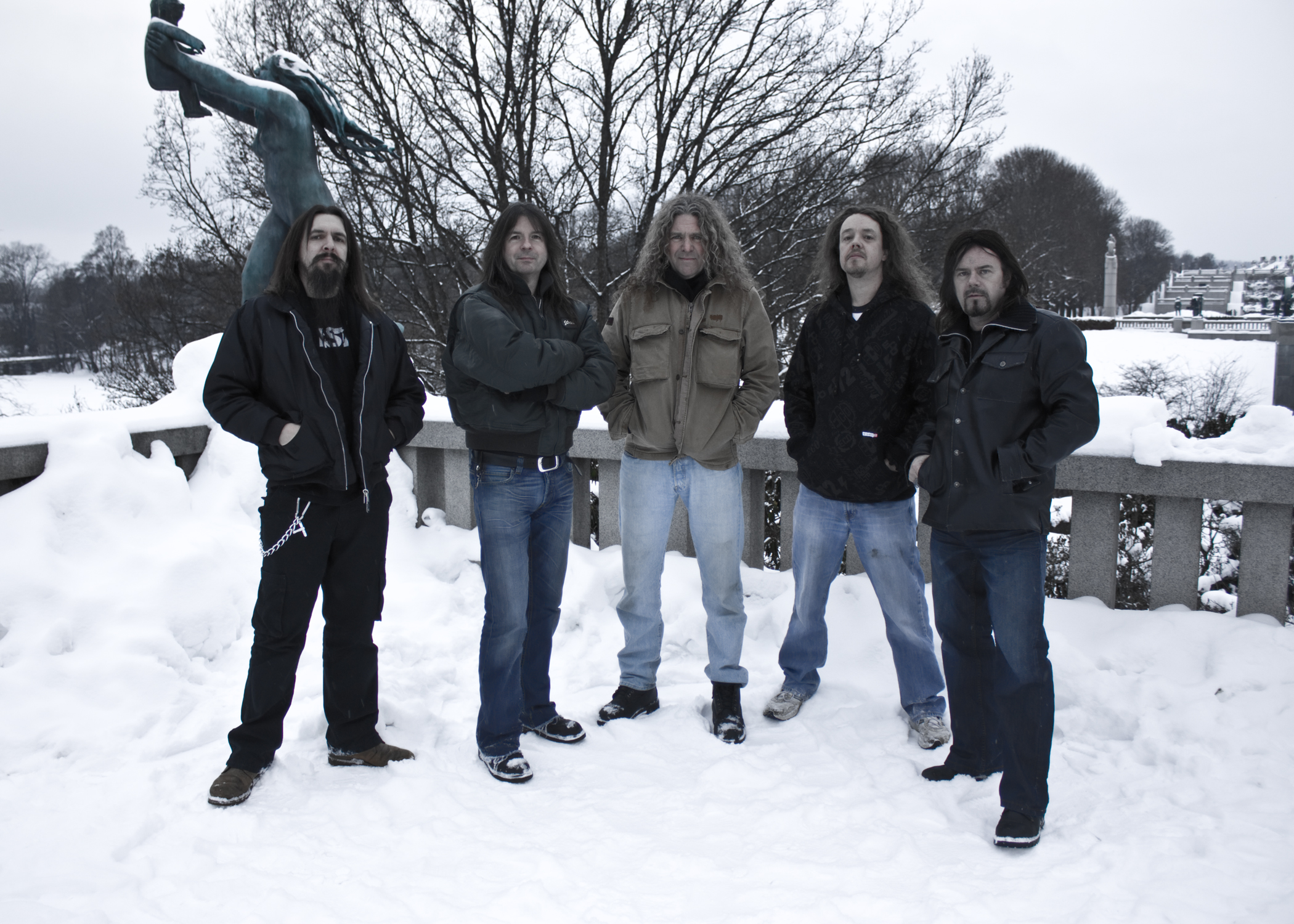 Tank (heavy metal band) in Norway